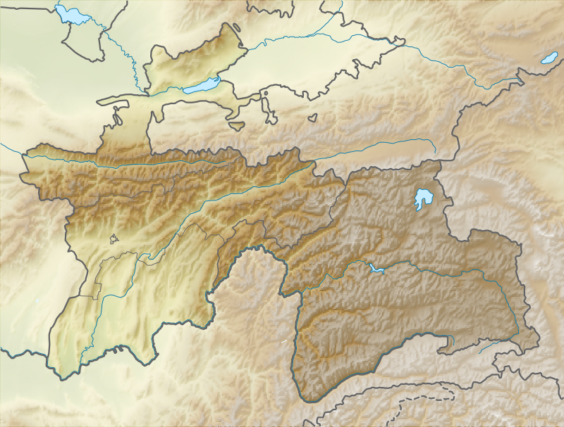 Relief map of Tajikistan using pre-2011 China-Tajikistan border Equirectangular projection, N/S stretching 130 %. Geographic limits of the map: N: 41.3° N S: 36.4° N W: 67.1° E E: 75.5° E